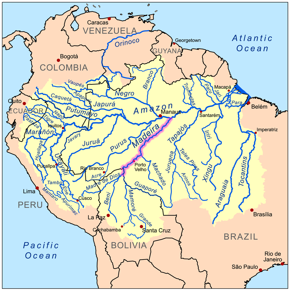 This is a map of the Amazon River drainage basin with the Madeira River highlighted.